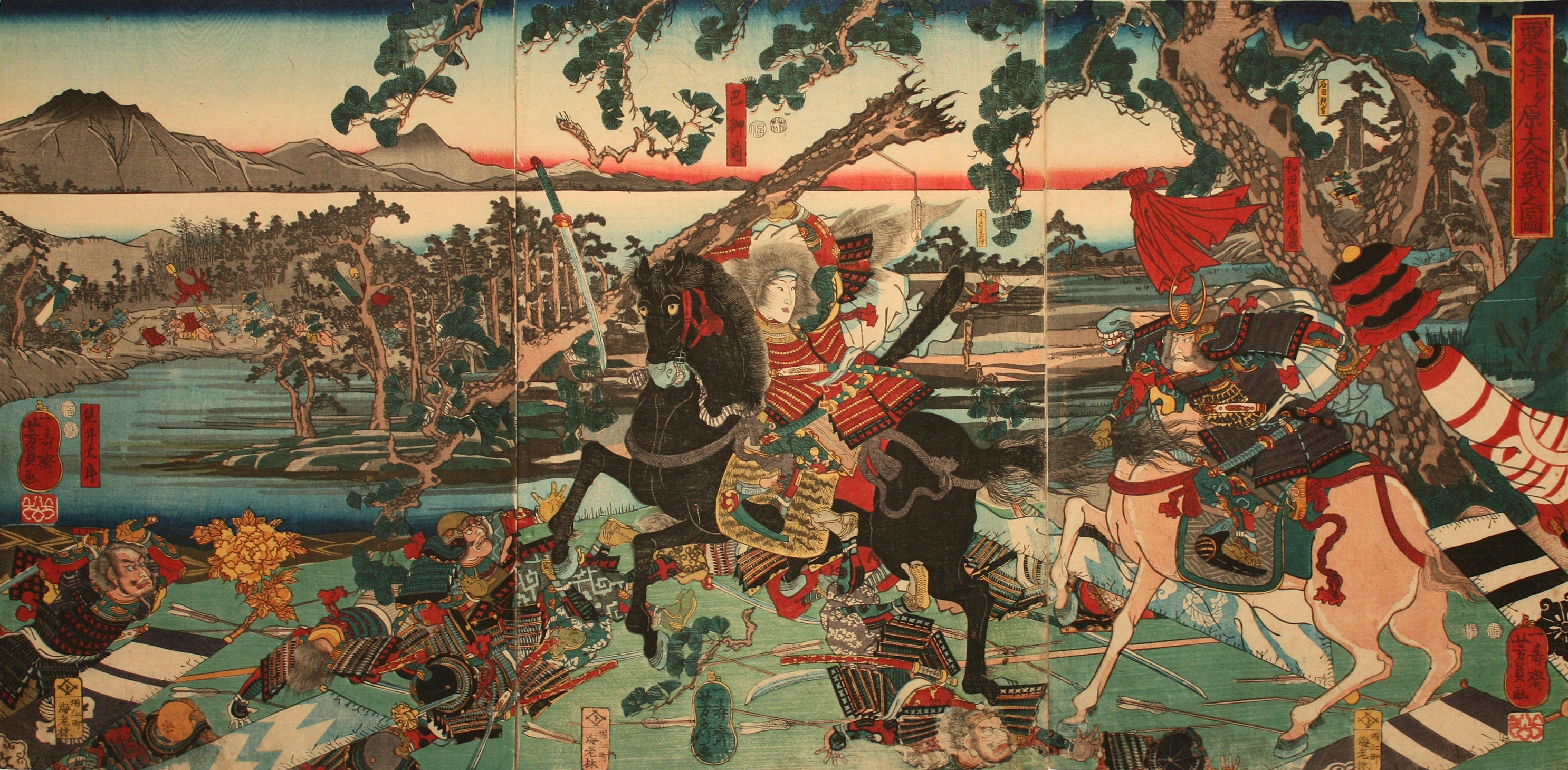 An ukiyo-e of Tomoe Gozen in the Battle of Awazu.